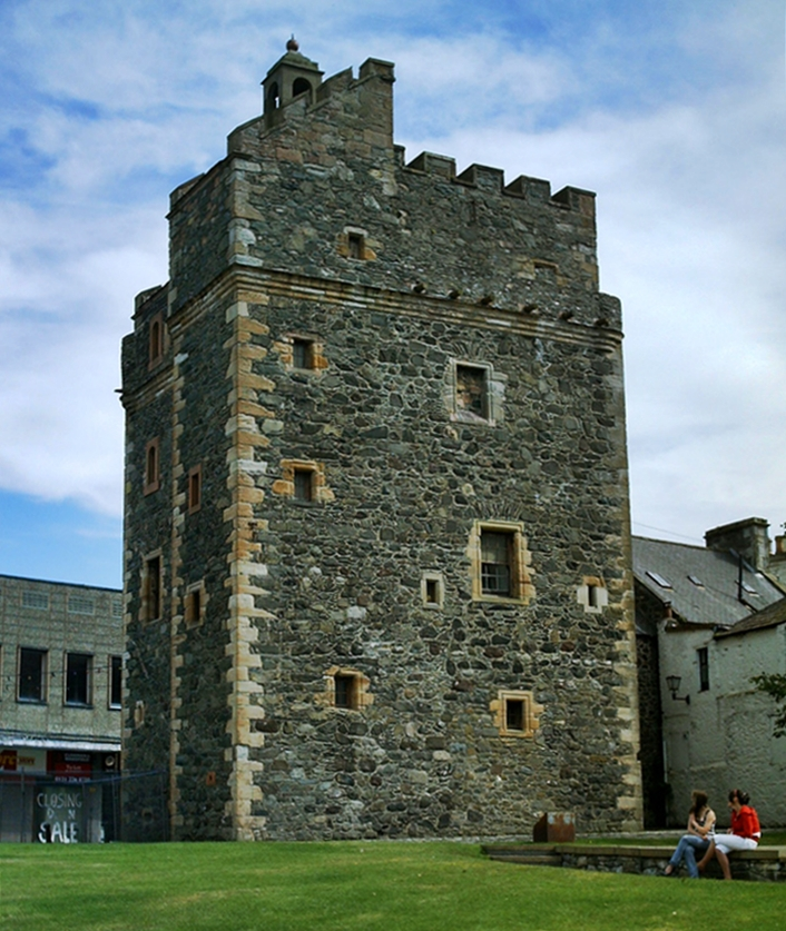 Stranraer Castle, also known as the Castle of St. John, in Stranraer, sout-west Scotland.